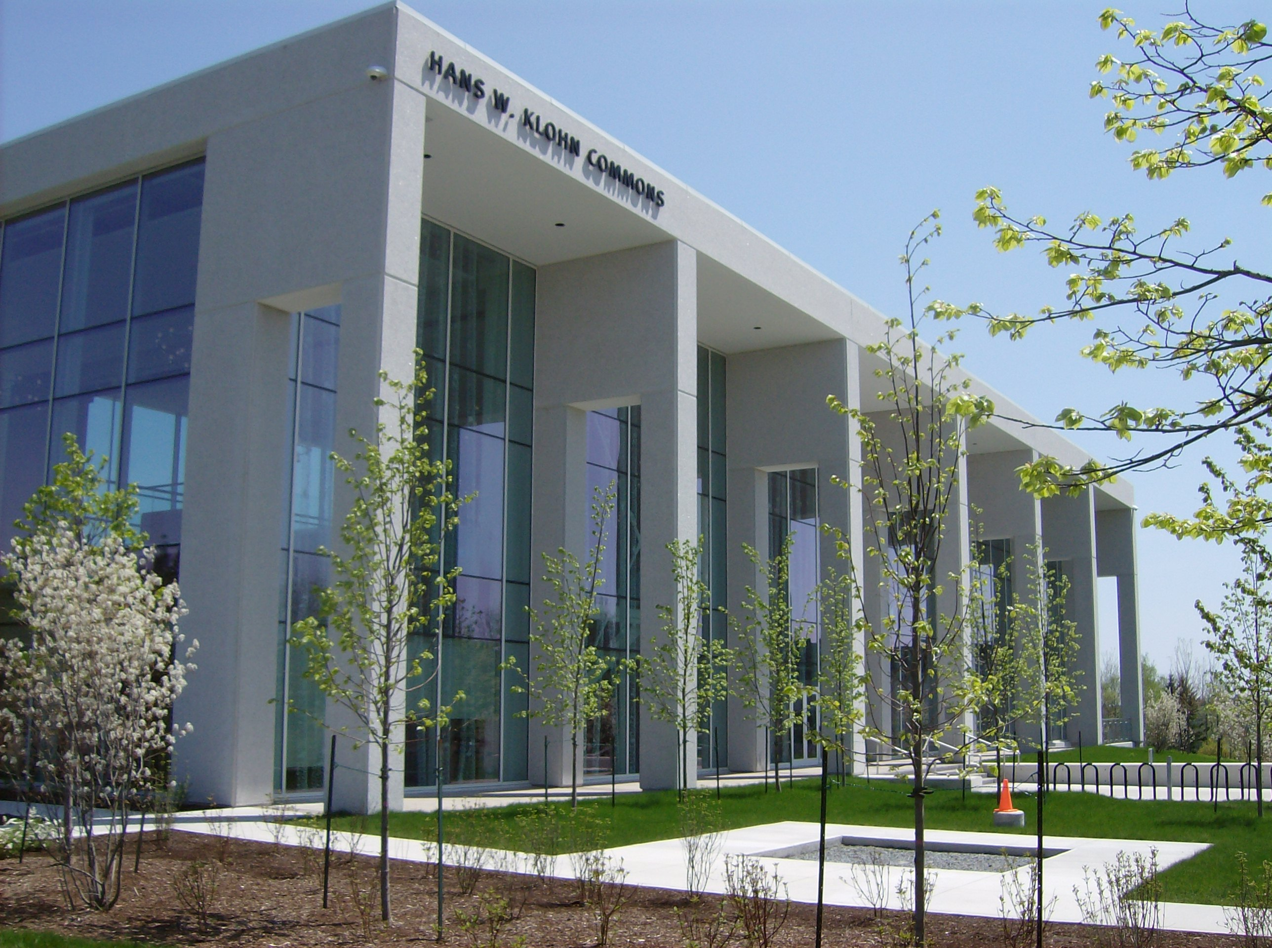 UNBSJ Library Perspective, Saint John NB